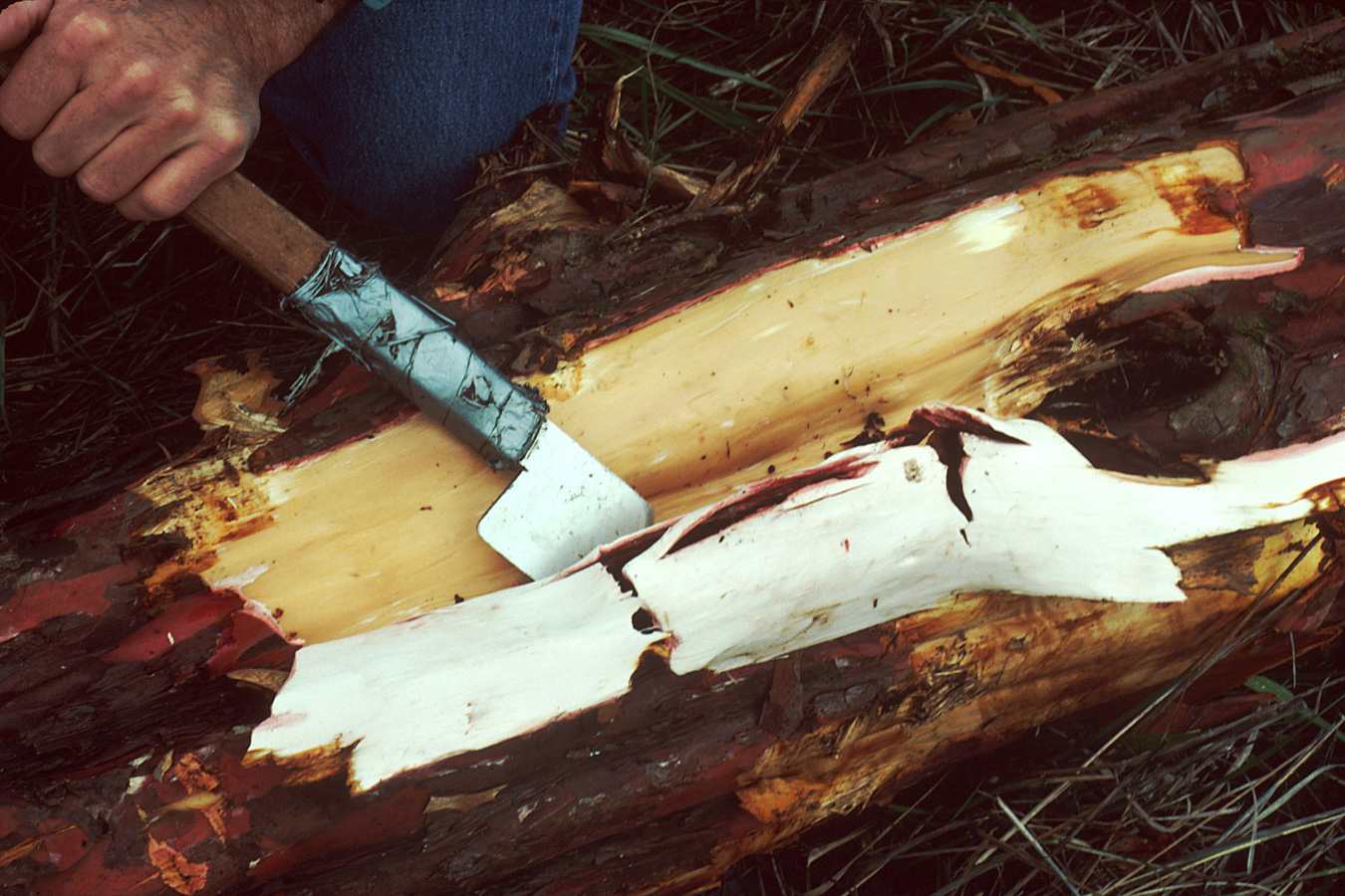 Source: This image was released by the National Cancer Institute, an agency part of the National Institutes of Health, with the ID 2555 (image) (next). This tag does not indicate the copyright status of the attached work. A normal copyright tag is still required. See Commons:Licensing. Description: Taxol, found in the bark of the Pacific yew tree (Taxus brevifolia), is a promising anti-cancer drug. Source: Mike Trumball. Hauser Northwest Author: Unknown photographer/artist AV Number: AV-9104-3762 Date Created: April 1991 License info